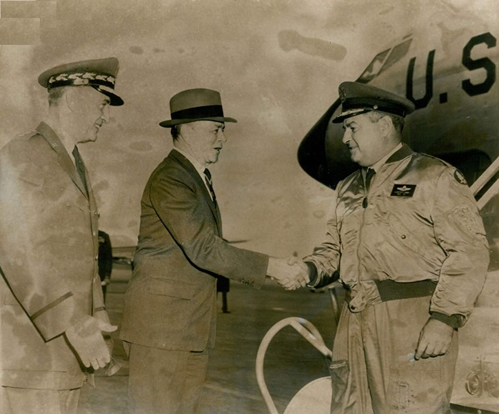 General Curtis LeMay greeted by Secretary of the Air Force James H. Douglas and Chairman of The Joint Chiefs of Staff General Nathan F. Twining at Washington National Airport, upon LeMay's return from Boeing KC-135 non-stop flight from Buenos Aires, Argentine.